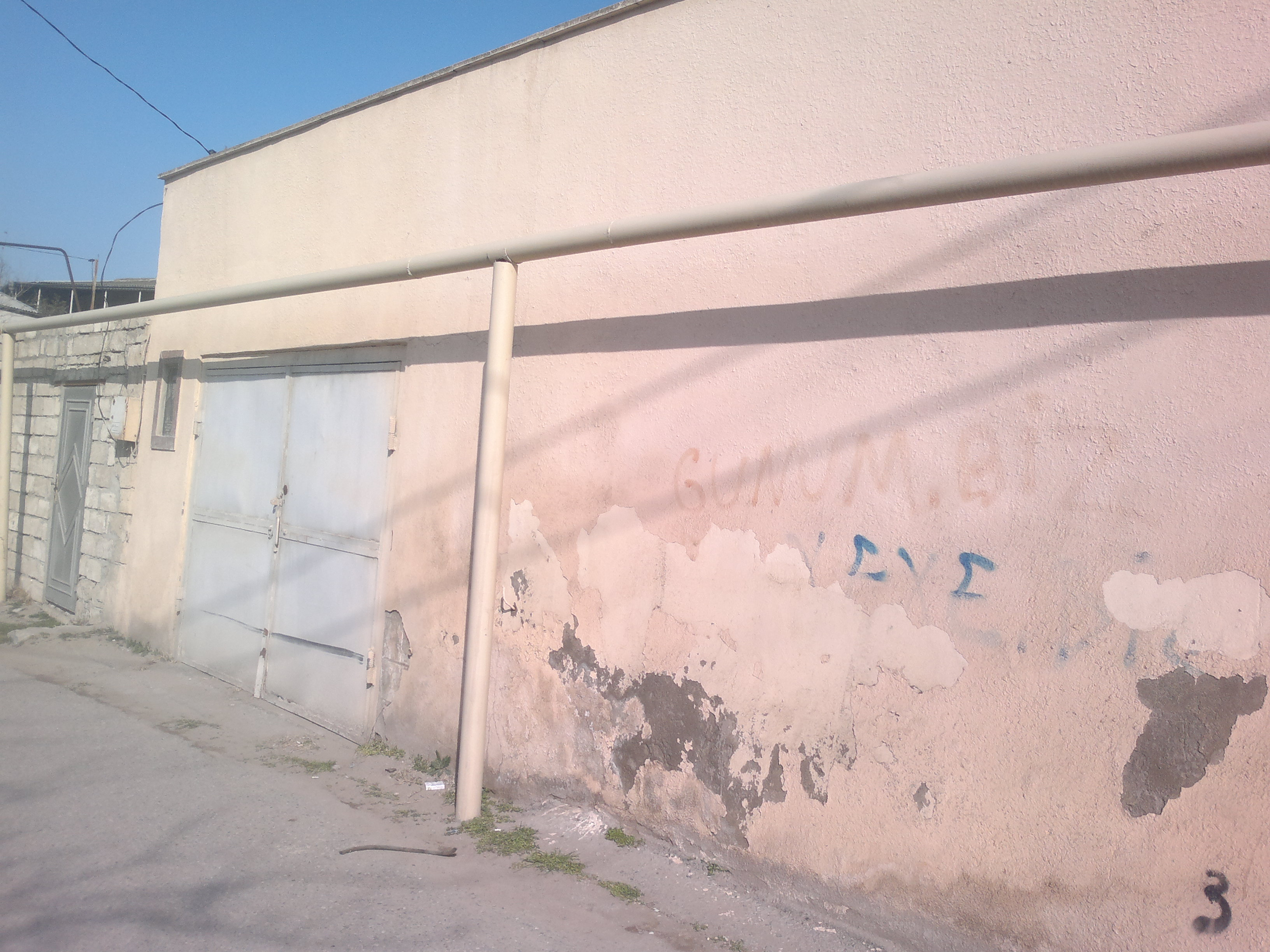 House with Avaz Verdiyev memorial plaque